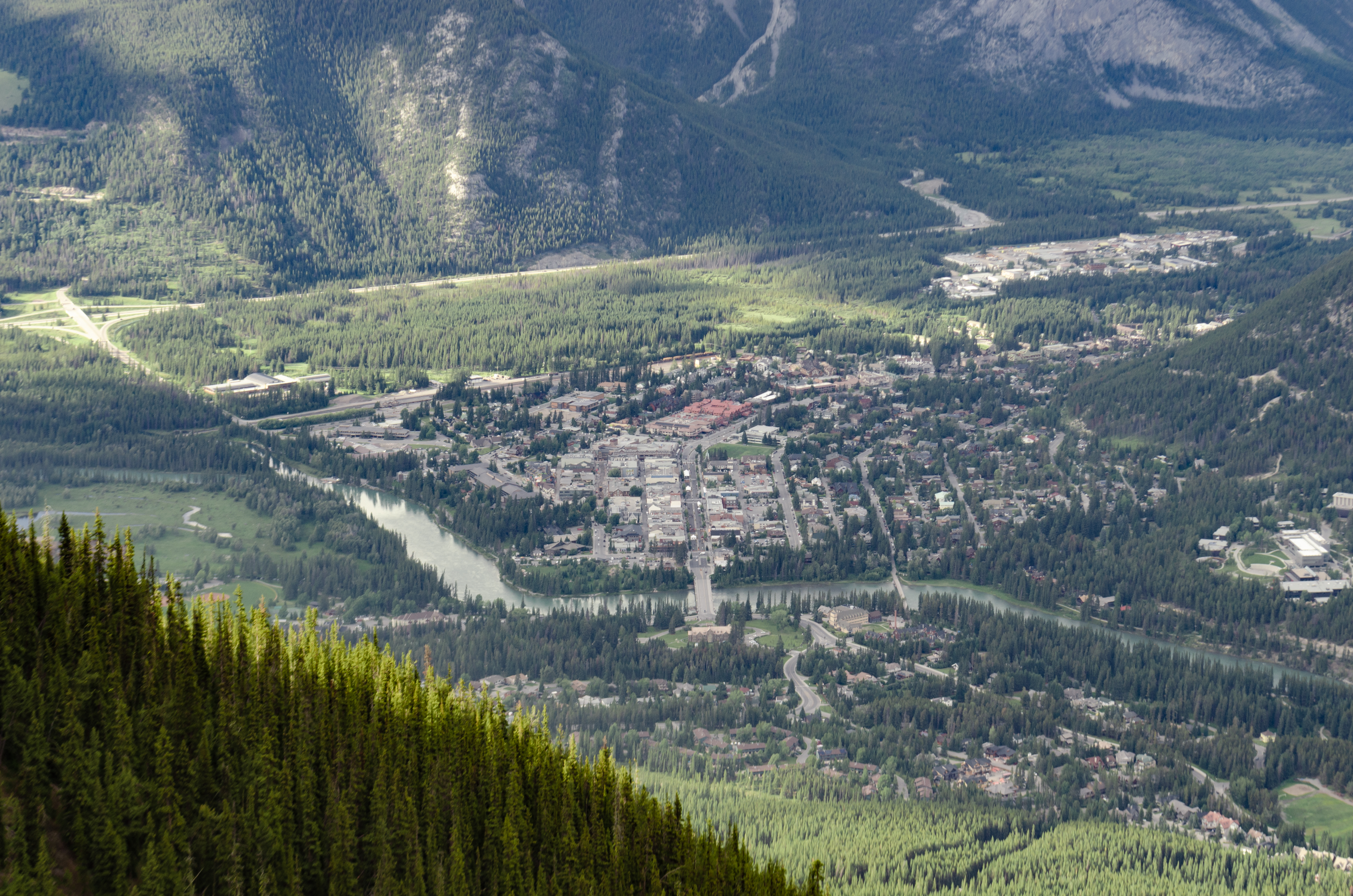 The town of Banff viewed from Sulphur Mountain.